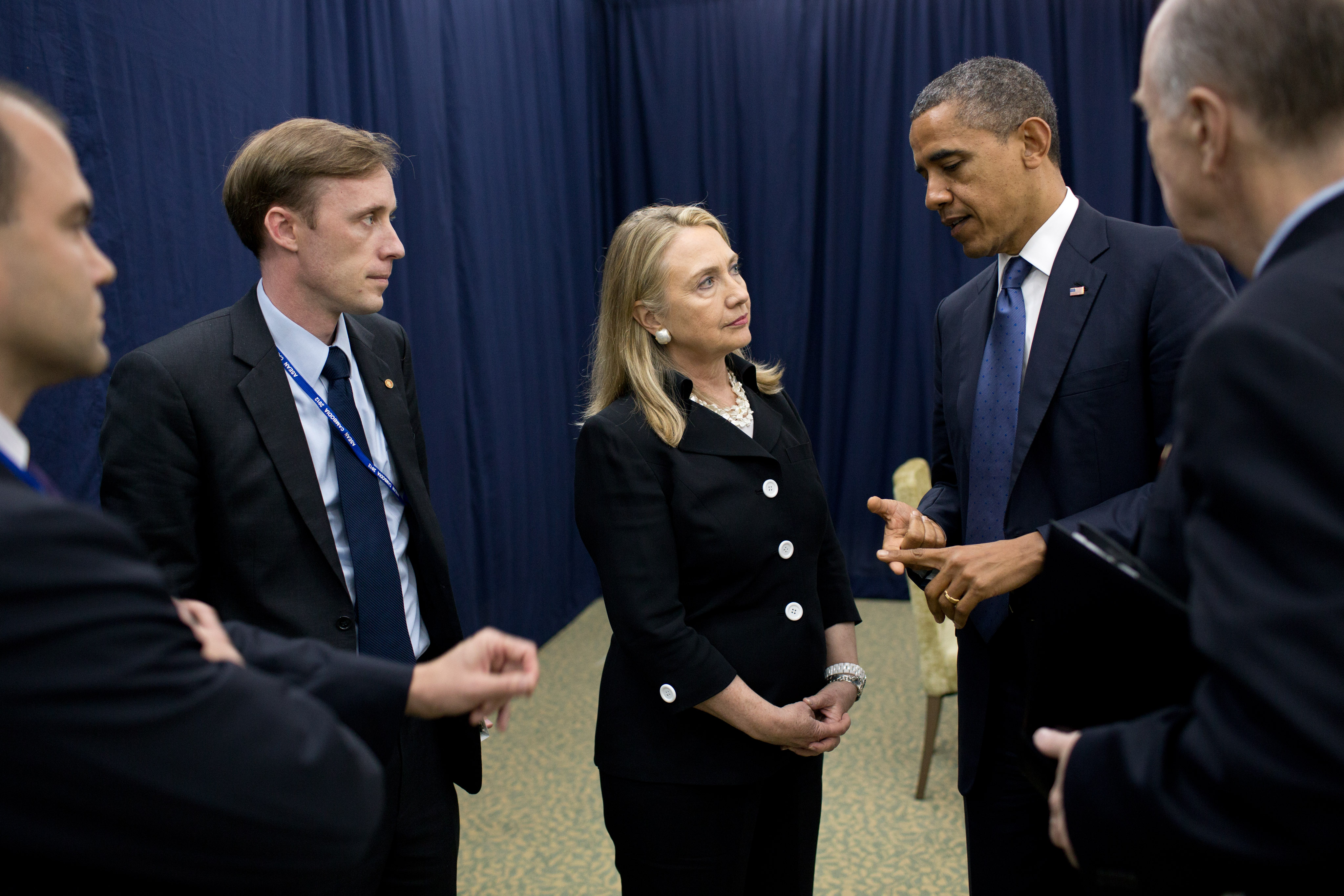 United States President Barack Obama talks with Secretary of State Hillary Rodham Clinton about his decision to send her to the Middle East while attending the US-ASEAN Summit in Phnom Penh, Cambodia on 20 November 2012. From left are: Ben Rhodes, Deputy National Security Advisor for Strategic Communications; Jake Sullivan, Deputy Chief of Staff to the Secretary of State; and National Security Advisor Tom Donilon.